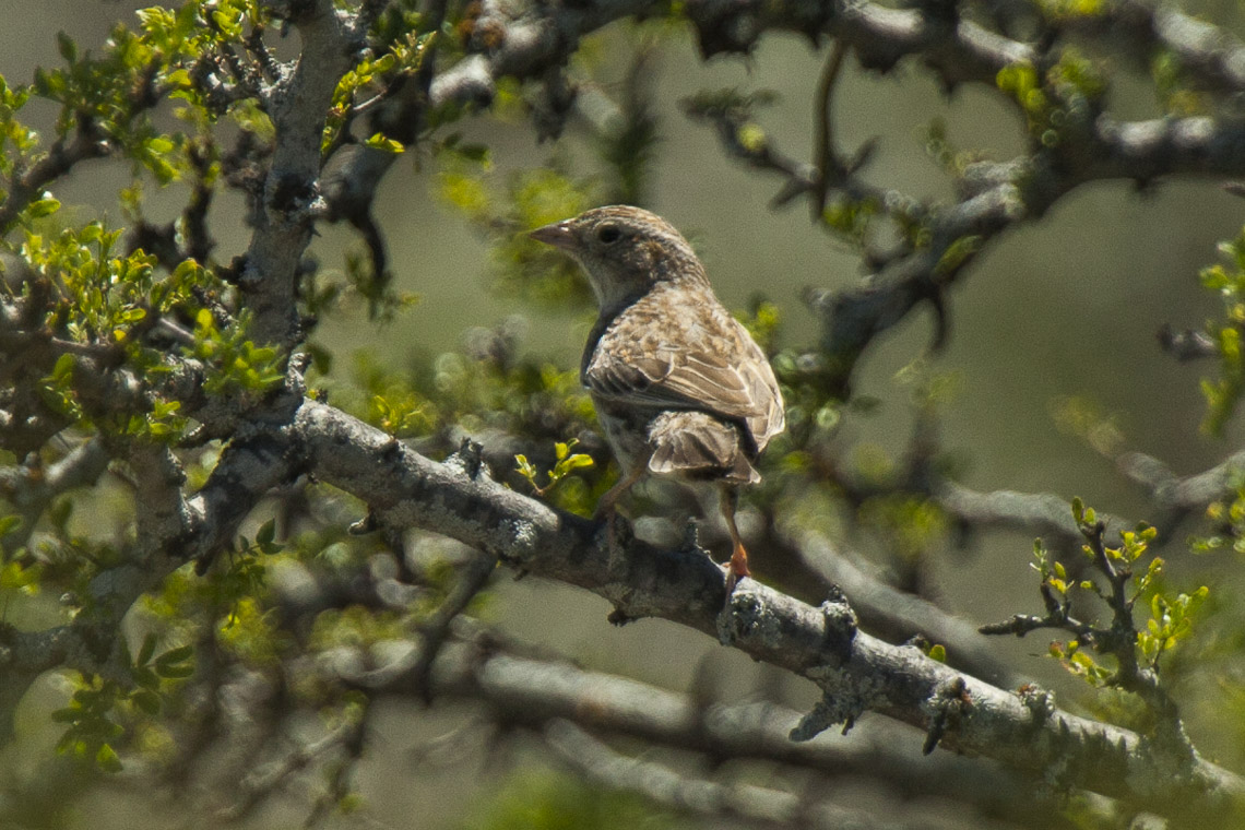 Cassin's Sparrow - Texas - USA_H8O1561